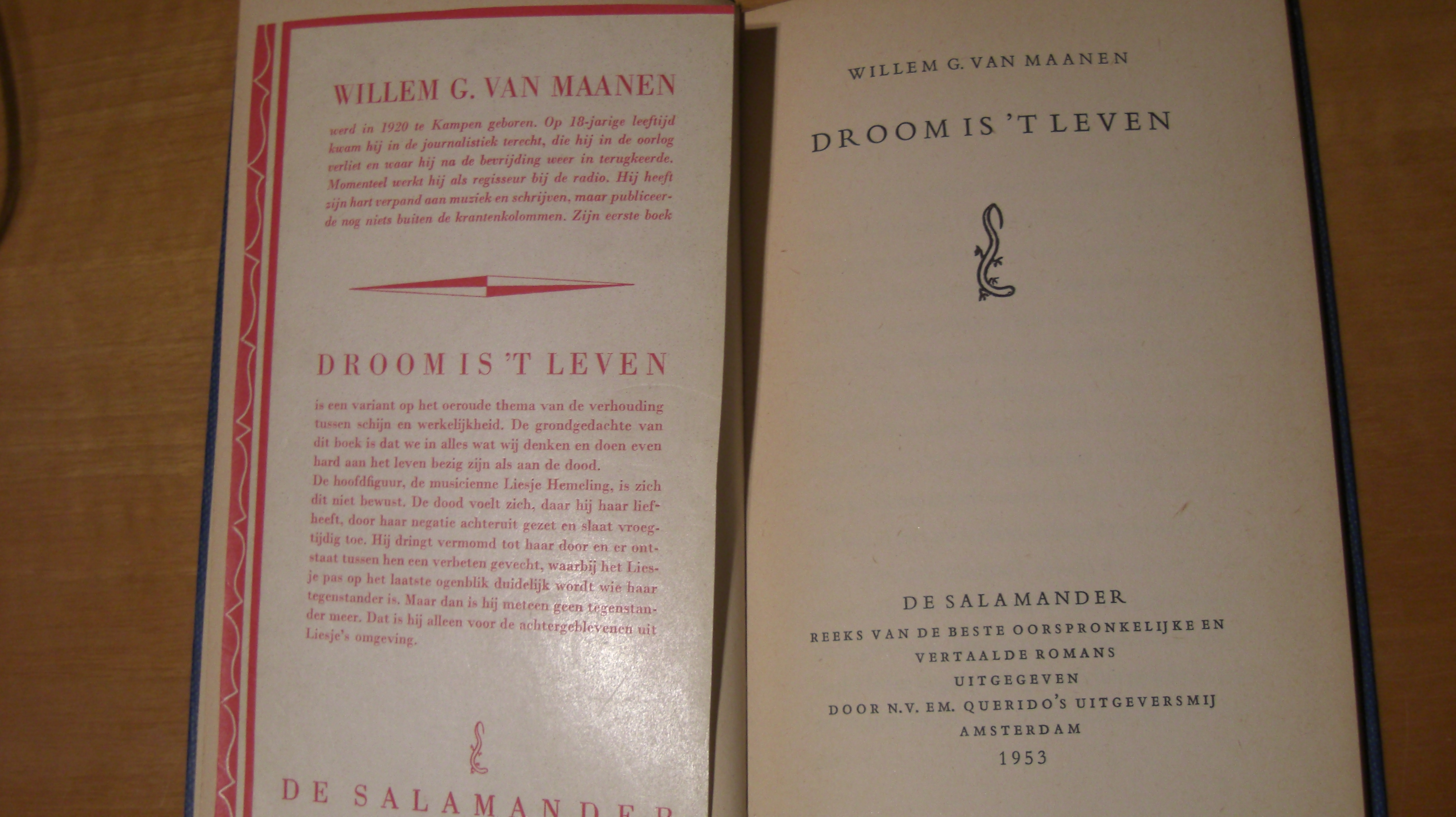 1e druk van maanen